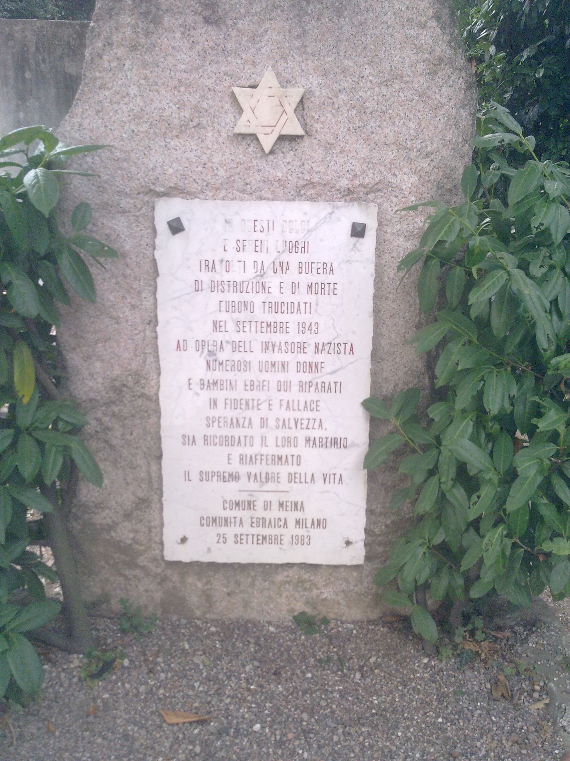 Memorial for several jews murdered by german Waffen-SS-Troopers of the I. SS-Panzervision Leibstandarte Adolf Hitler. The jews were incarcered in the Hotel Meina/Italy and killed at unknown places in the vicinity of Meina between the 22. and the 25. of September 1943.